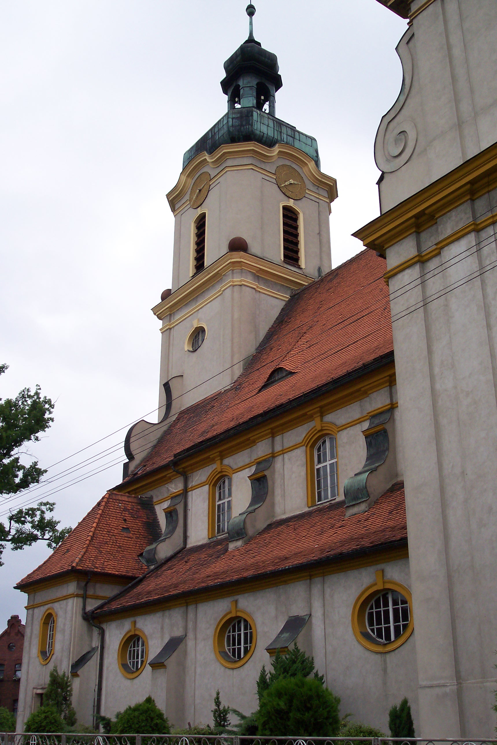 Church in Krasiejów/Poland